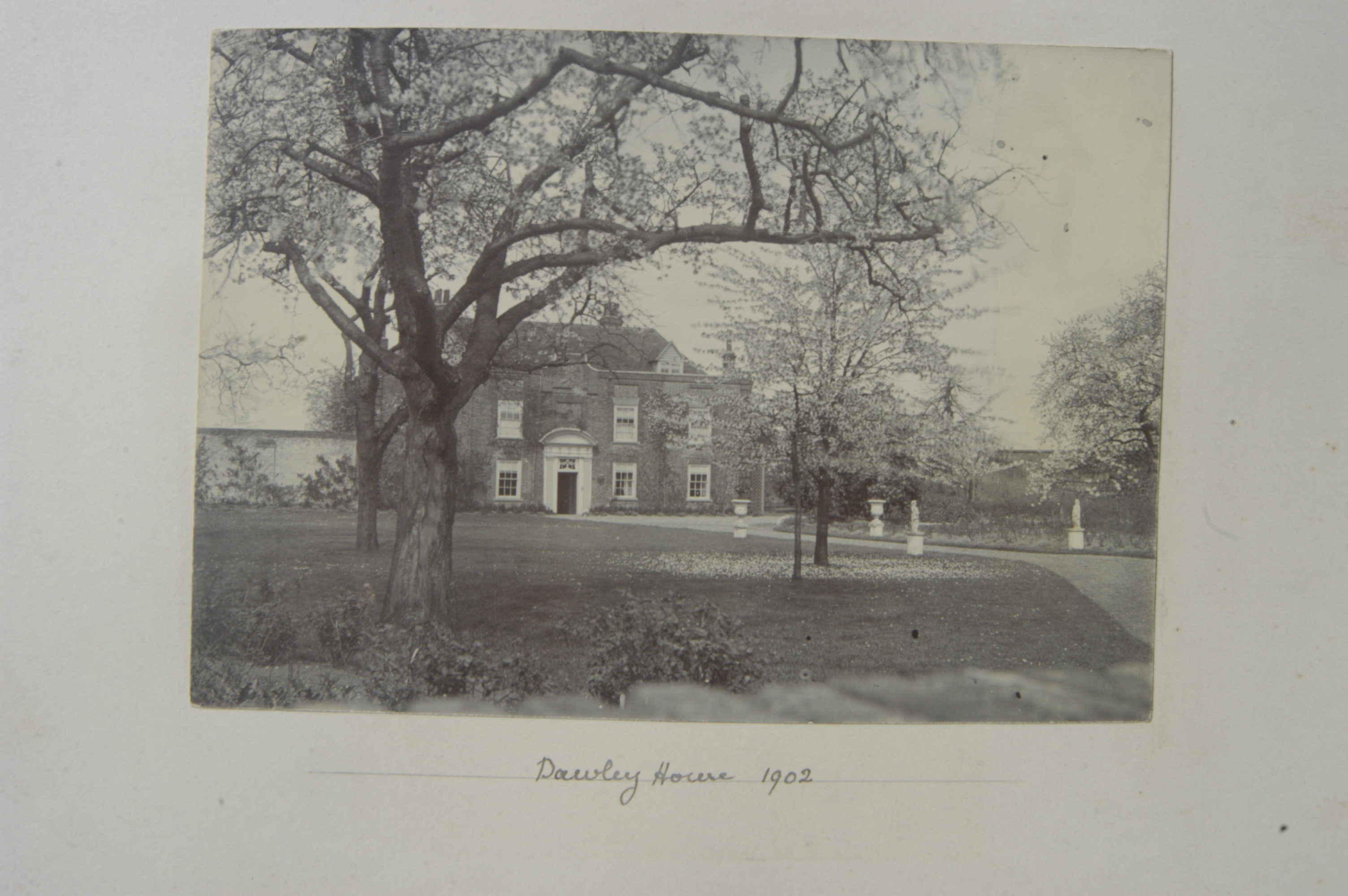 Photograph (by me, R. de Salis, Rodolph (talk) 21:12, 20 July 2015 (UTC)) of an anon. photo of Dawley House, Harlington, Middlesex, 1902.